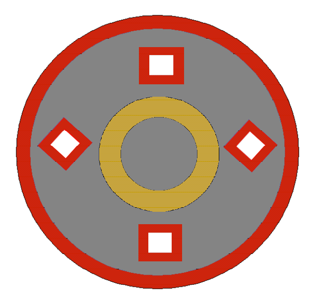 Shield pattern of the Mauri tonantes iuniores is listed as a unit of auxilia palatina in the Magister Peditum's infantry roster.